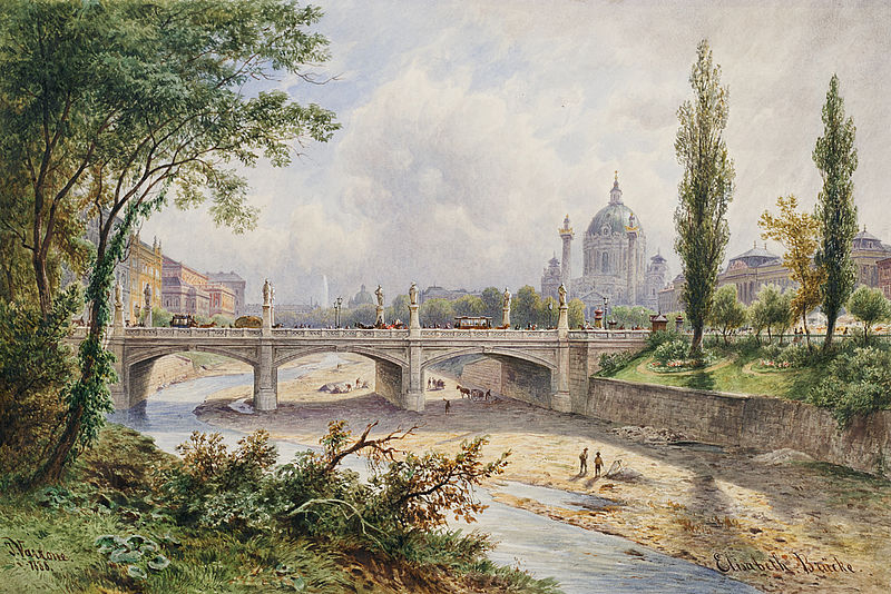 The Elisabethbrücke (Elisabeth Bridge) in Vienna. Watercolor. Collection: Wien Museum